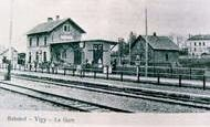 railway stations in Vigy (France - 1907)